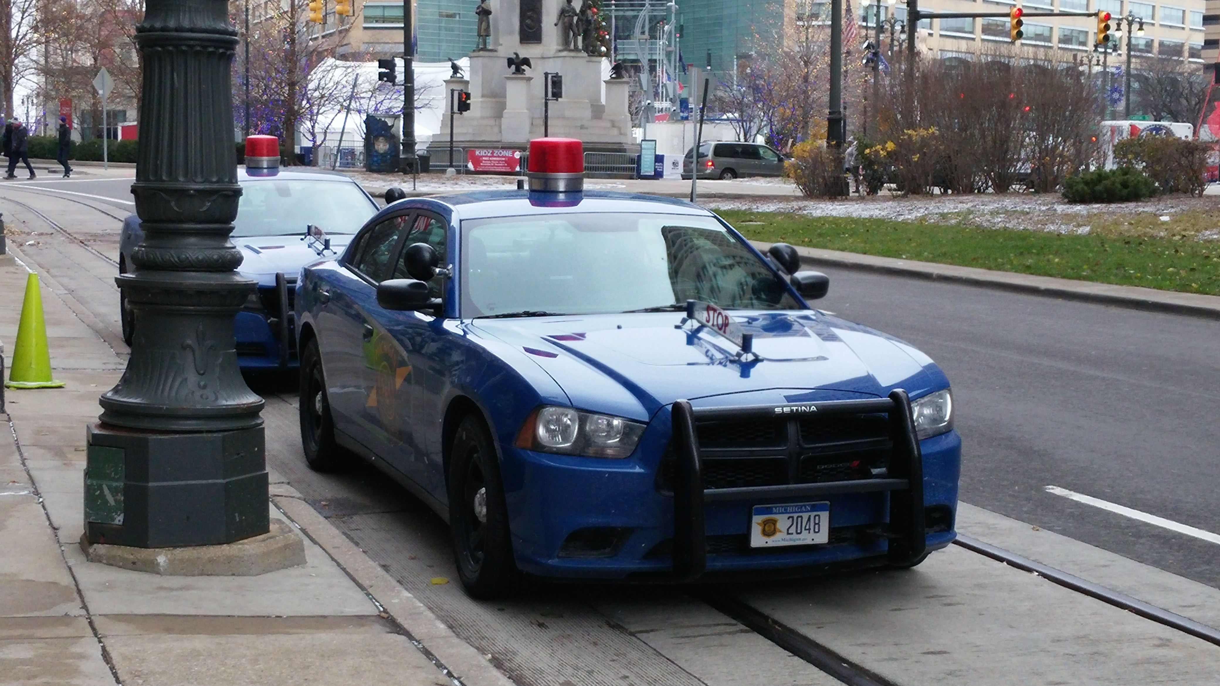 Two Michigan State Police cars parked in downtown Detroit